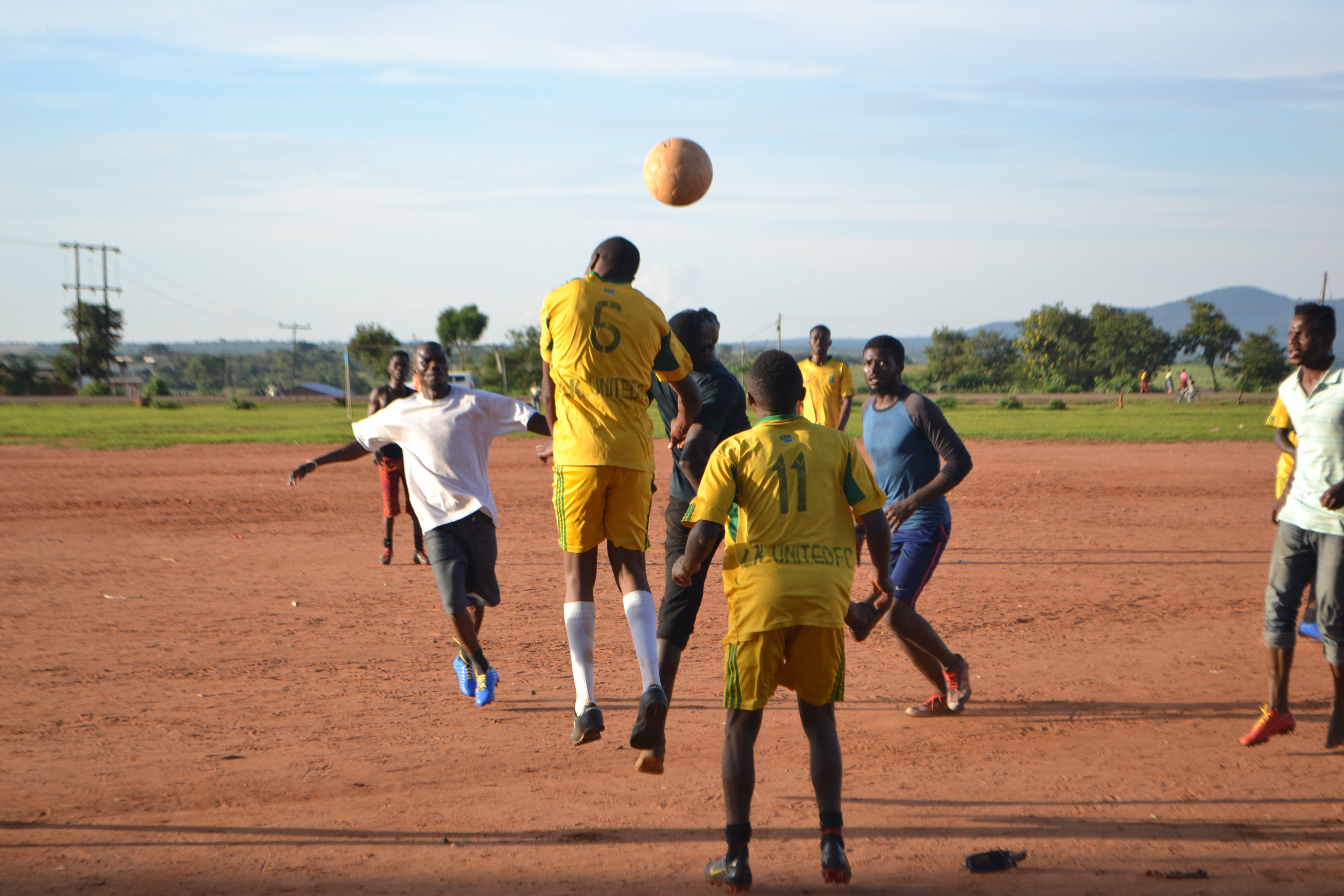 Refugees from different countries meet together on Sunday to play football. This is an image with the theme "Play" from: Malawi